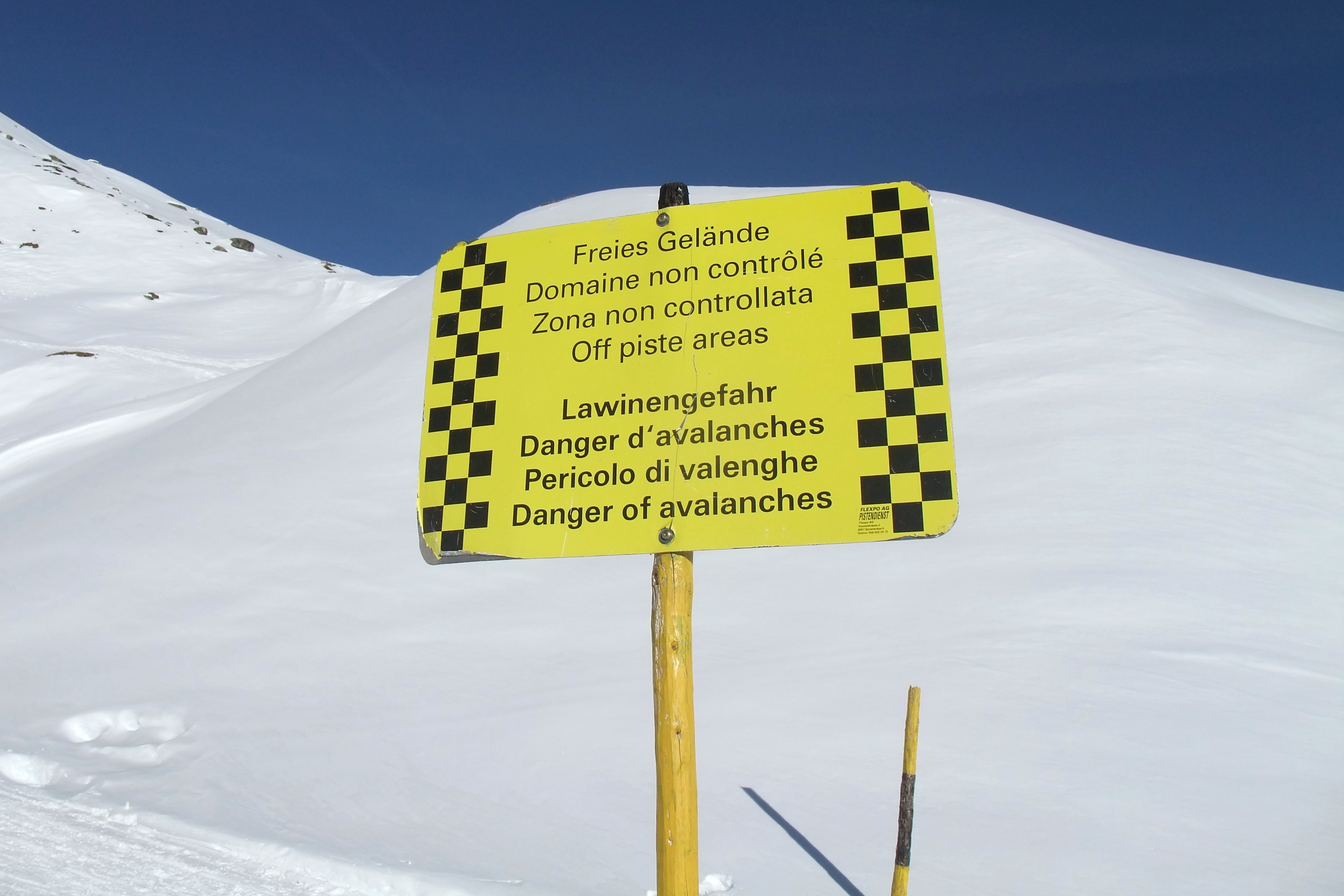 The Furka Pass landscape in winter is not spoilt with barriers and bans. Personal responsibility as opposed to ropeways, ski lifts and mass tourism. Switzerland, Jan 12, 2014.